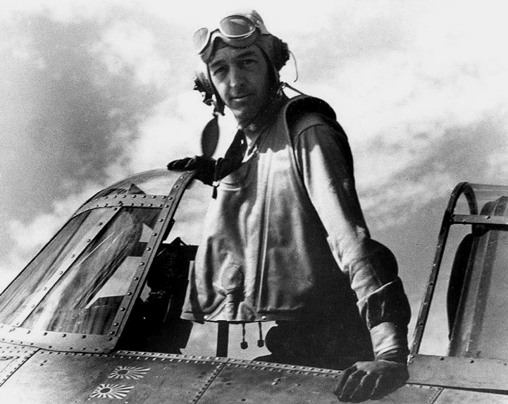 U.S. Navy Lieutenant Commander John Smith Thach, photographed in the cockpit of a Grumman F4F Wildcat fighter on 10 April 1942, while commanding Fighting Squadron 3 (VF-3). The Japanese flags on the plane commemorate "kills" Thach made while flying from the aircraft carrier USS Lexington (CV-2) on 20 February 1942. In late May 1942, VF-3 was assigned to the USS Yorktown (CV-5) and fought at the Battle of Midway.